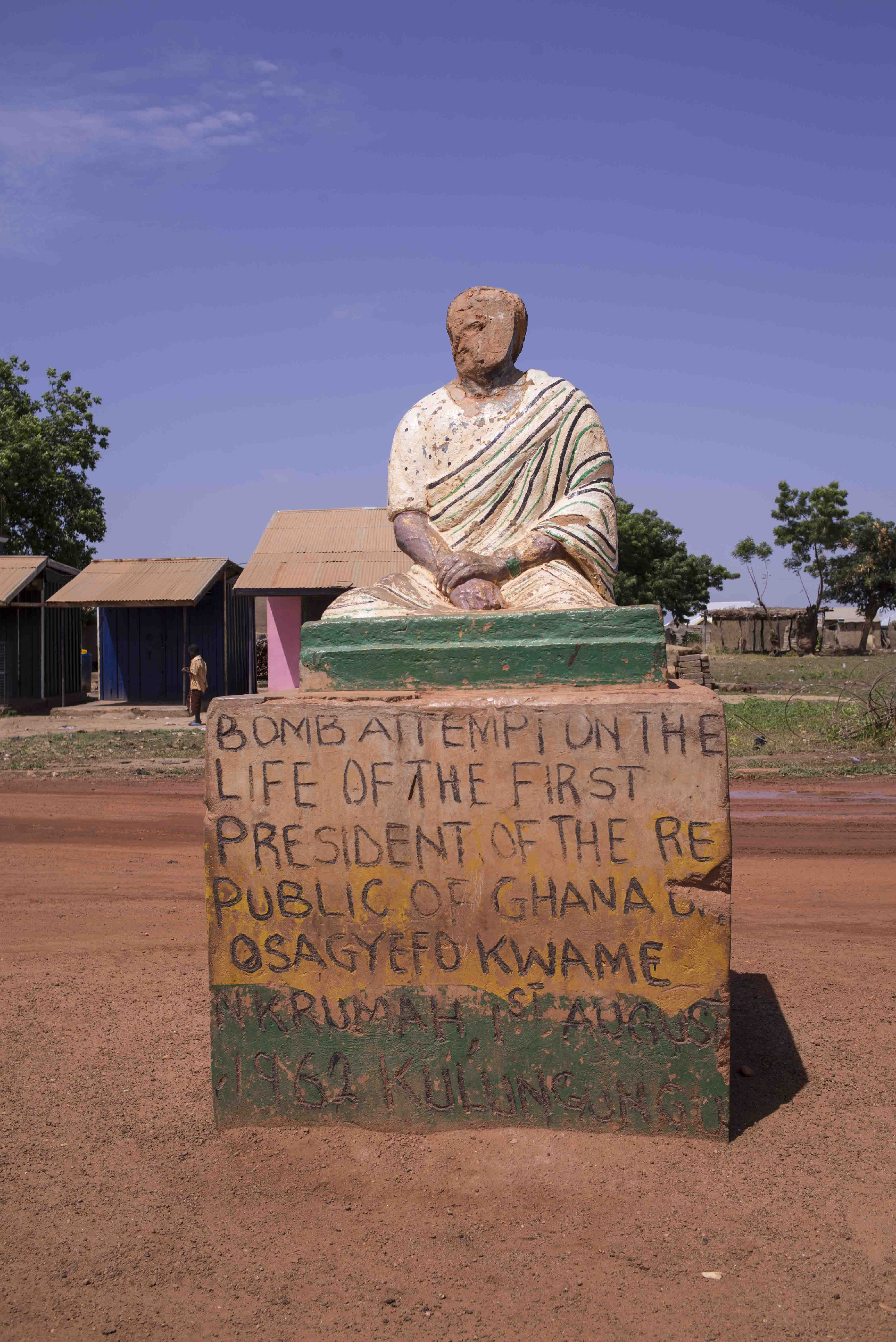 The statue is the place where Ghana's First President Osagyefo Kwame Nkrumah was Attack in the year "1ST August,1962". The statue make the exact point where the bomb attack happined.